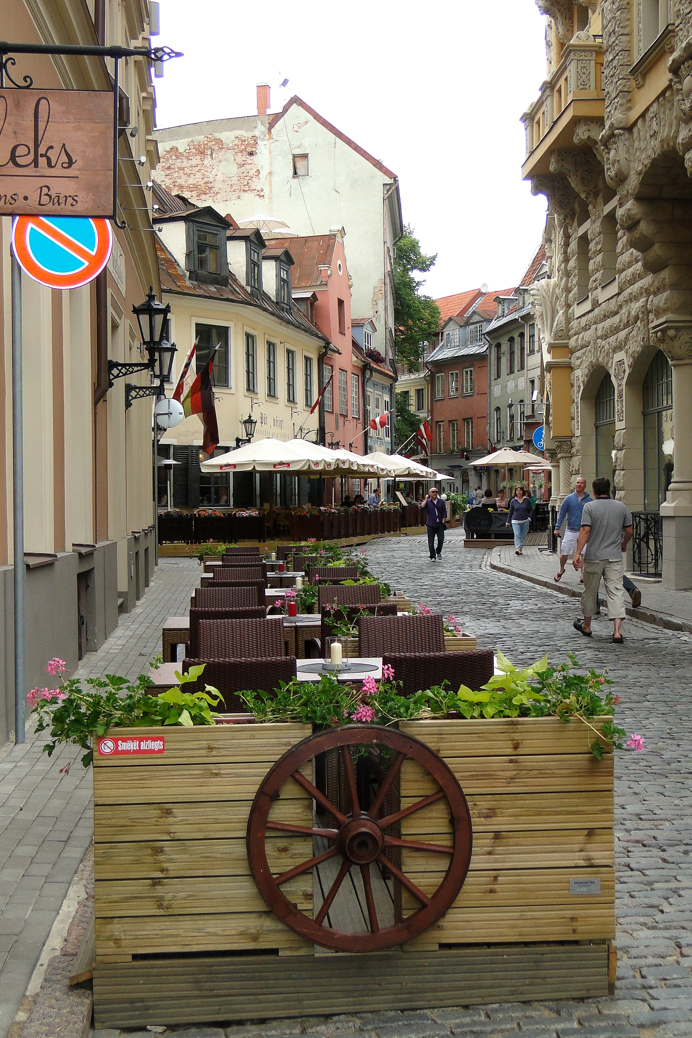 Street Scene - Old Town - Riga - Latvia - 02